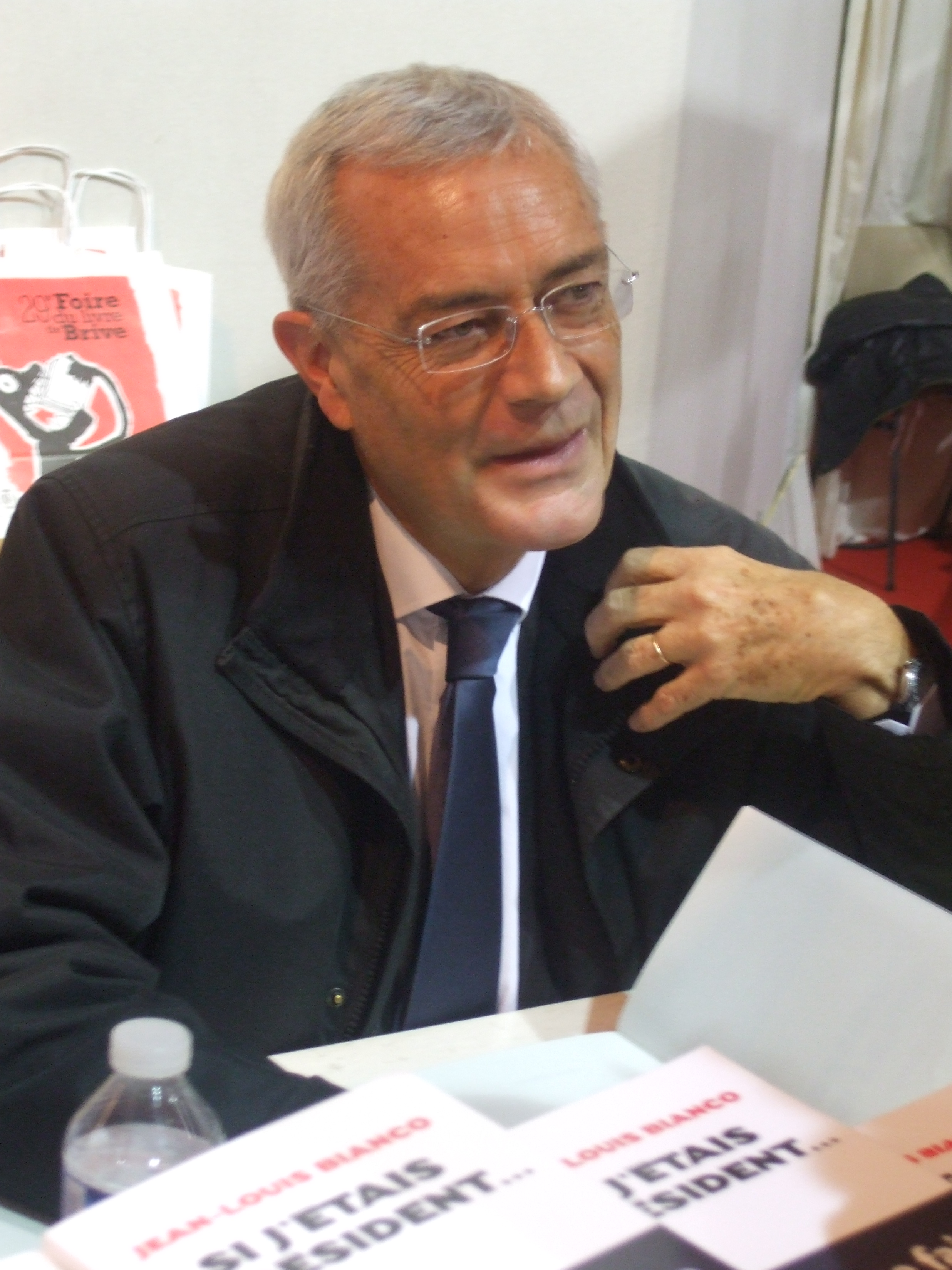 Jean-Louis Bianco, french politician, Brive la Gaillarde book fair, France, 2010 11 06